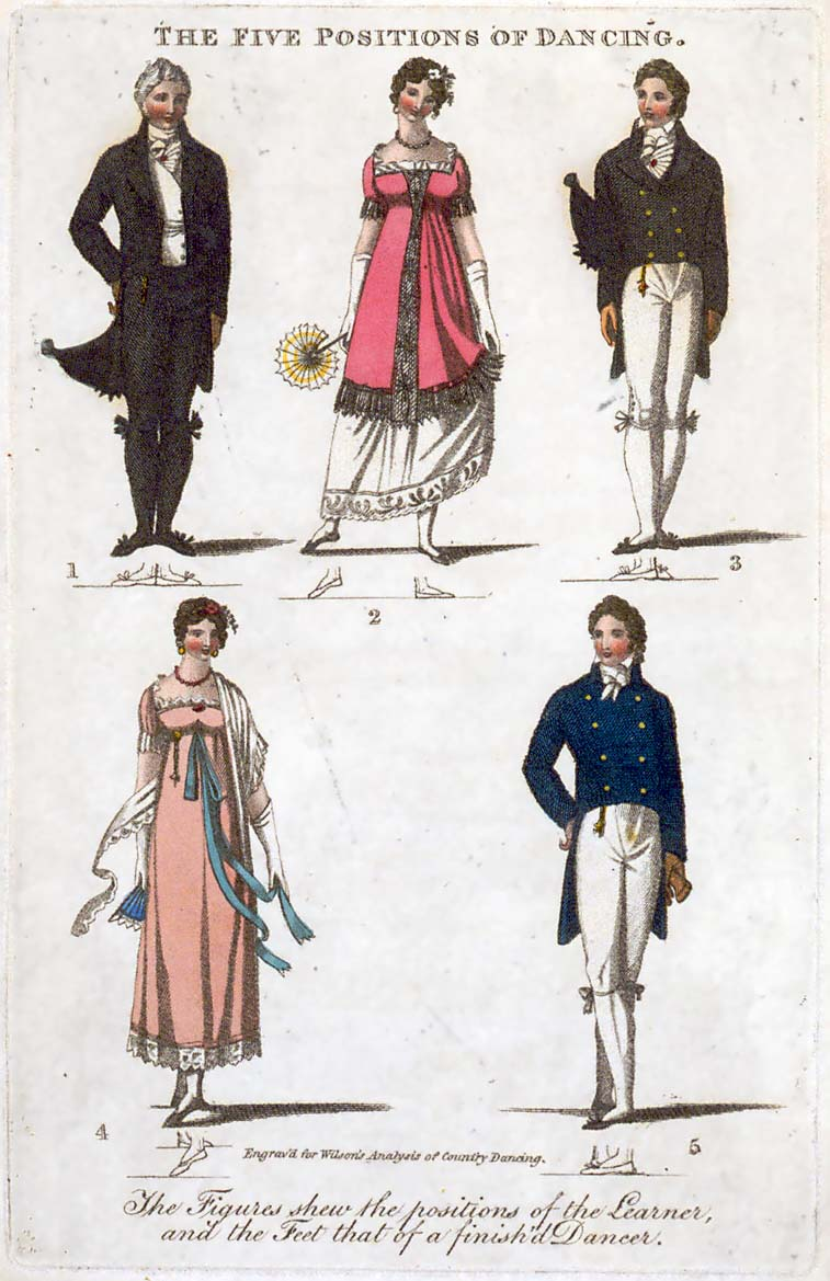 The five "Positions of Dancing" from Thomas Wilson's Analysis of Country Dancing (1811) – An analysis of country dancing, wherein all the figures used in that polite amusement are rendered familiar by engraved lines. Containing also, directions for composing almost any number of figures to one tune, with some entire new reels; together with the complete etiquette of the ball-room. By T. Wilson ... Illustrated with engravings on wood by J. Berryman. Wilson, Thomas, dancing master. Created/published 3d ed. London, J. S. Dickson, 1811. More on the publication... The colored illustrations of dancers show foot positions of a learner, while the line drawings below each dancer show the positions of a "finish'd Dancer".